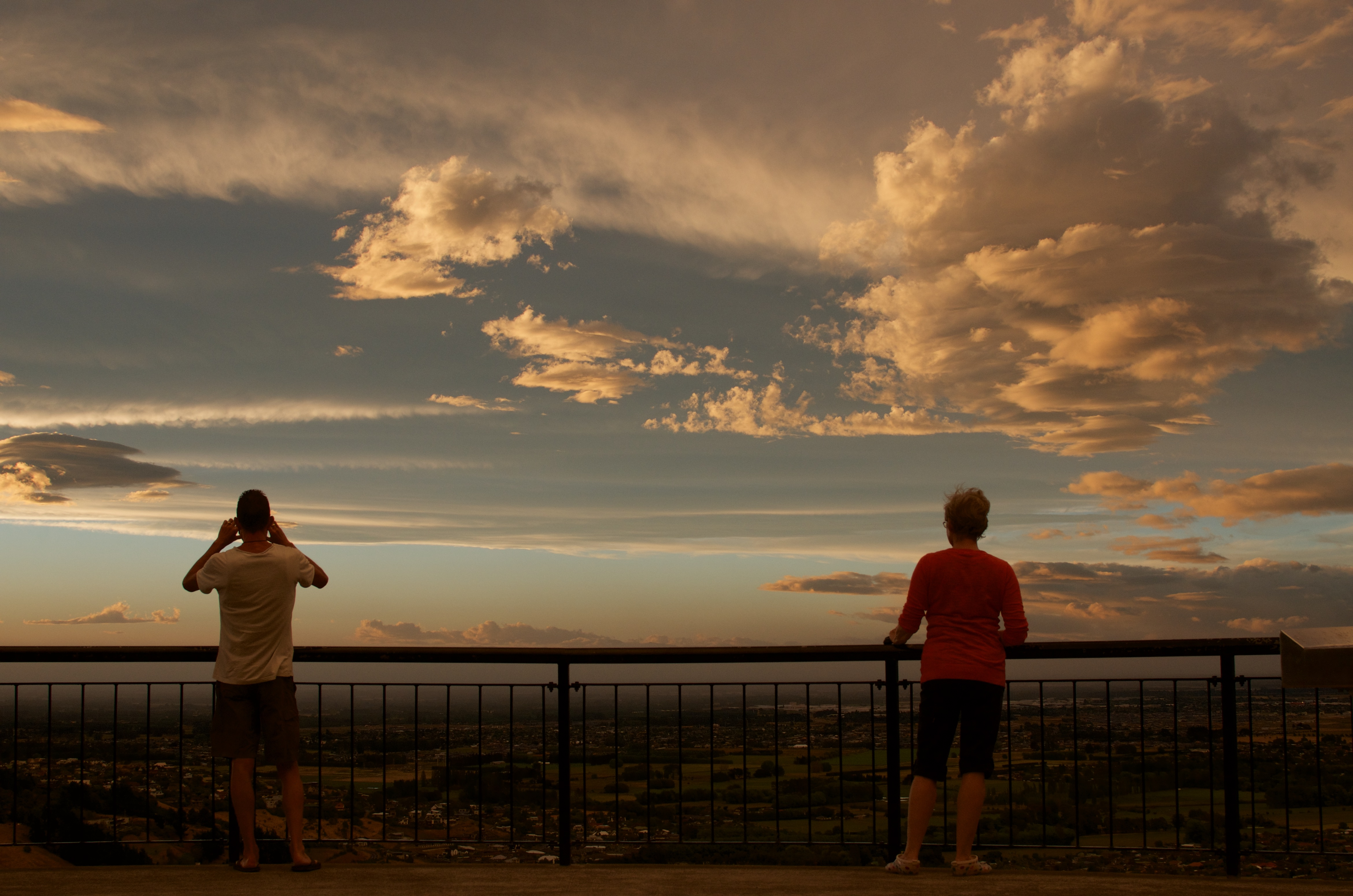 The view of Christchurch from Cracroft Reserve.